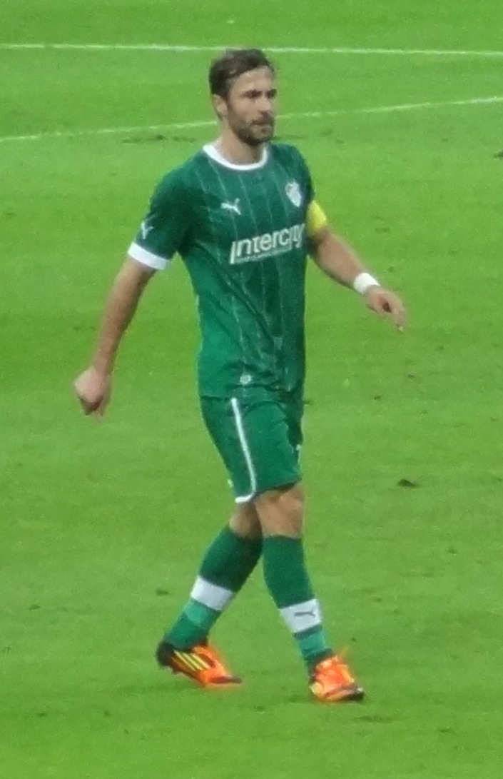 Ömer'12